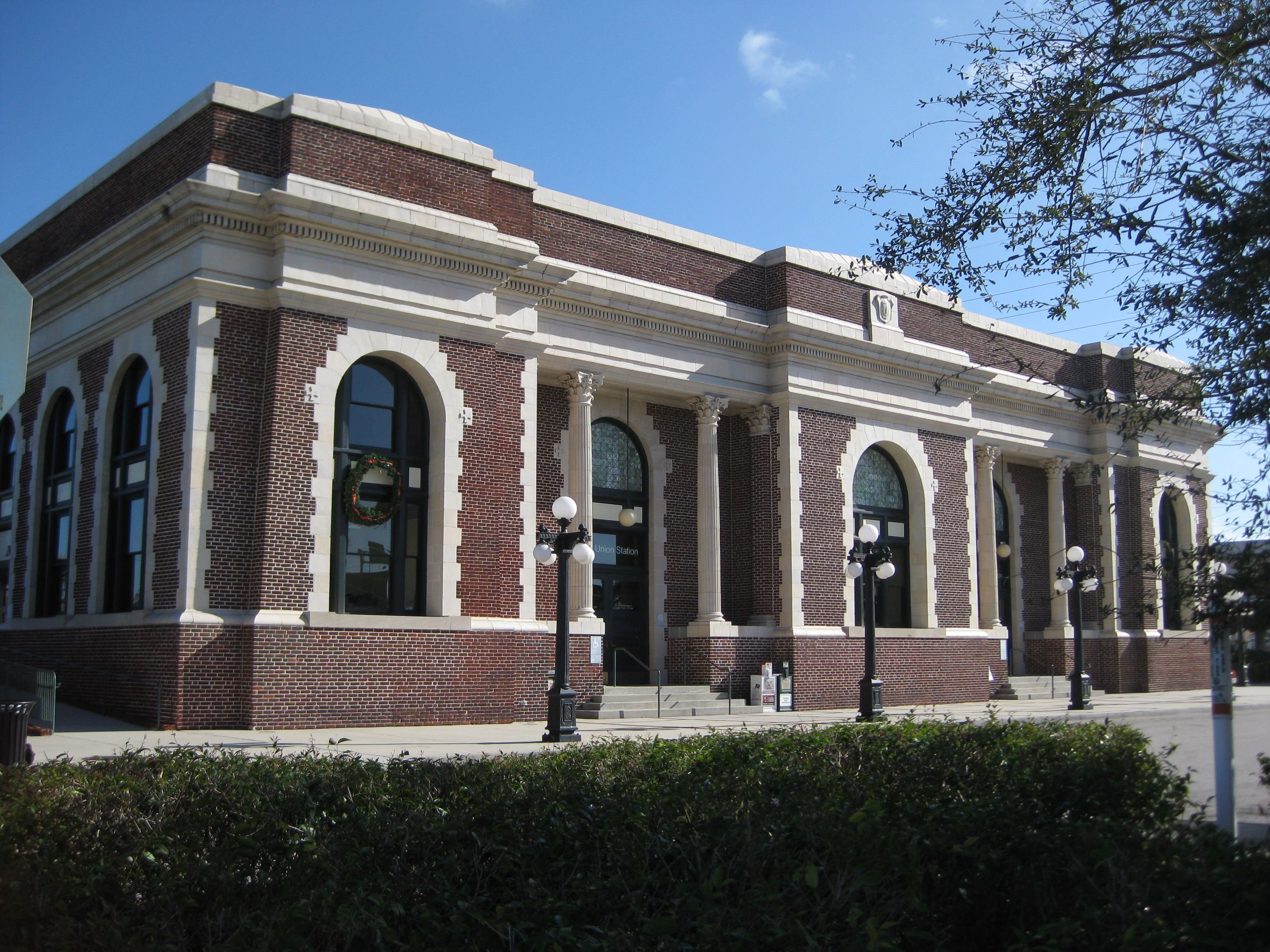 The front facade of the 1912 Union Train Station in Tampa, Florida, built in Italian Renaissance style and currently servicing Amtrak passenger trains.